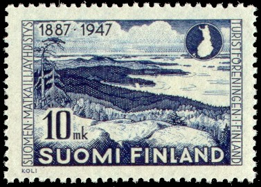 Finnish travelling association 60 years - Koli of Northern Carelia in stamp